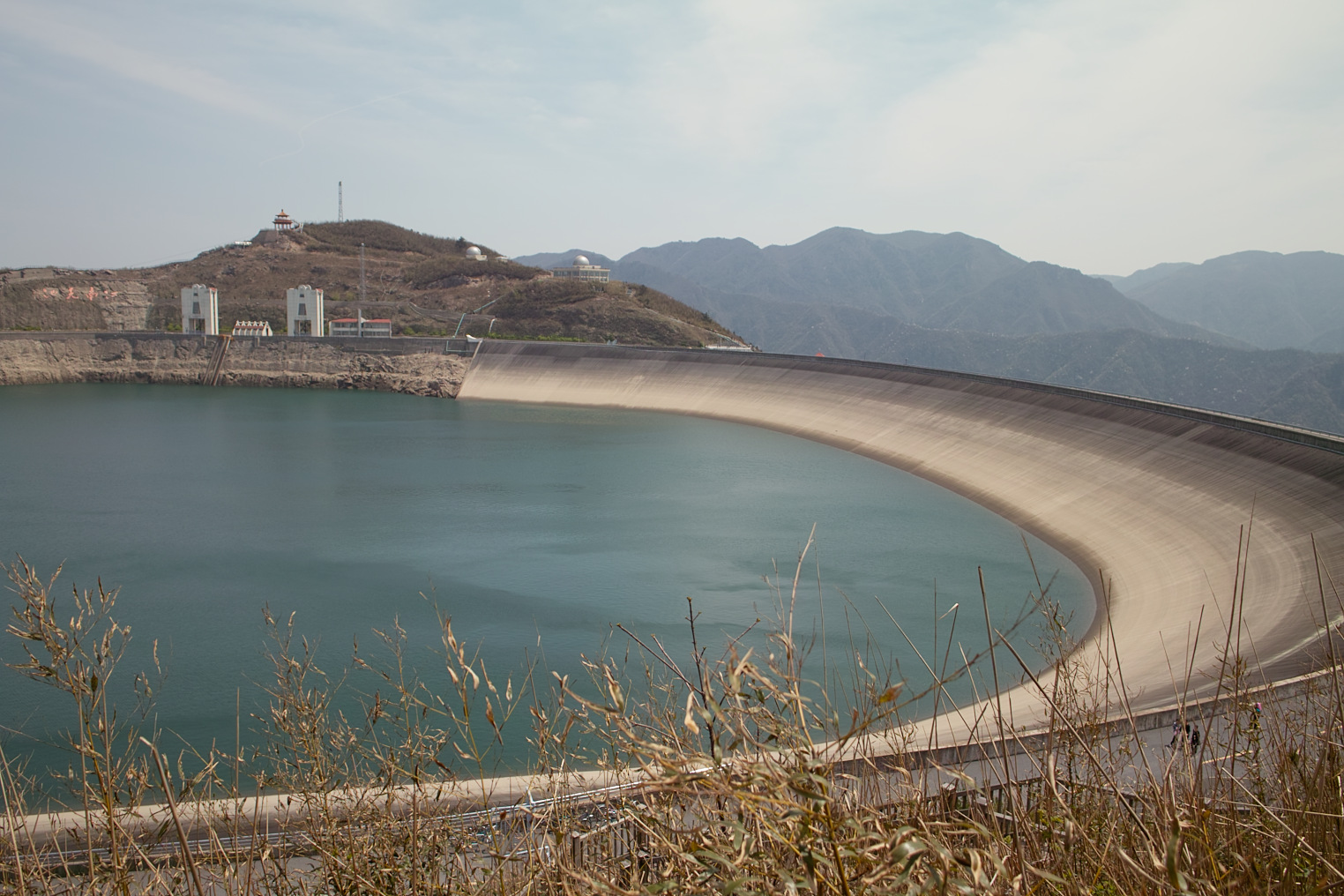 a reservoir on a hill